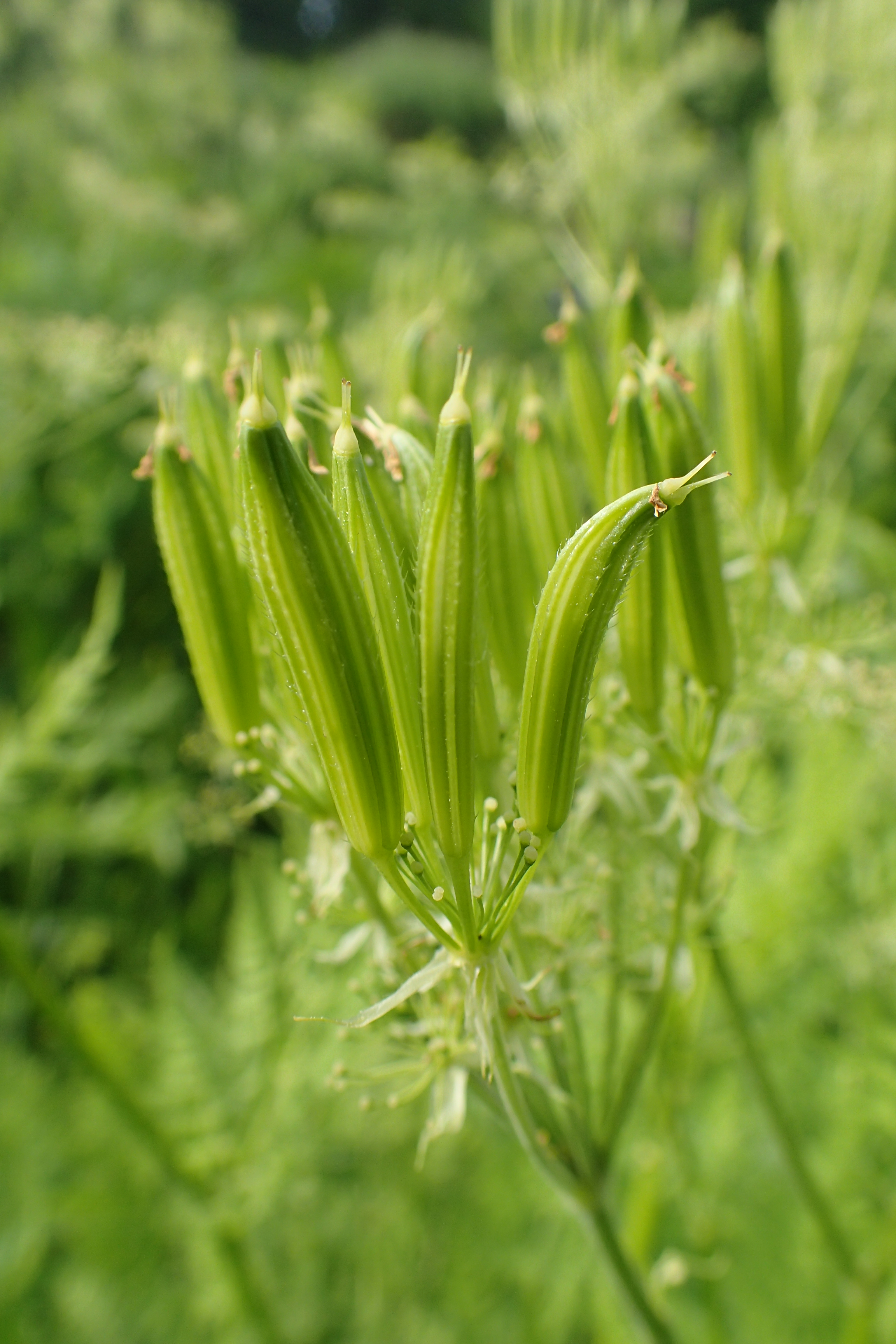 Myrrhis odorata in the Botanischer Garten, Berlin-Dahlem